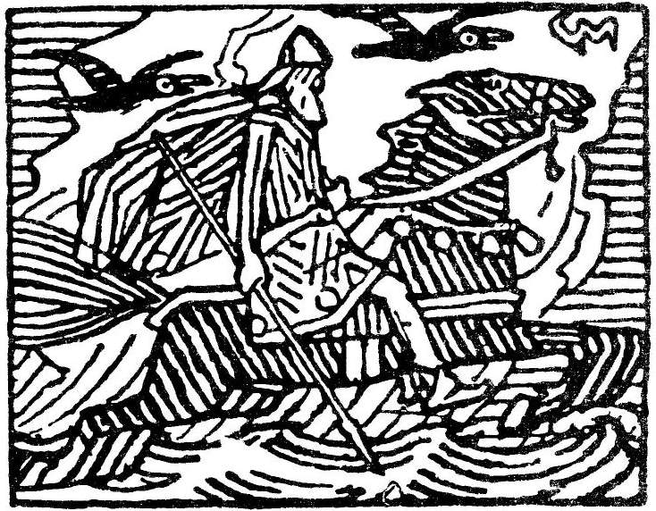 Gerhard Munthe: Illustration for Harald Hårfagres saga. Snorre 1899-edition. vignett 3